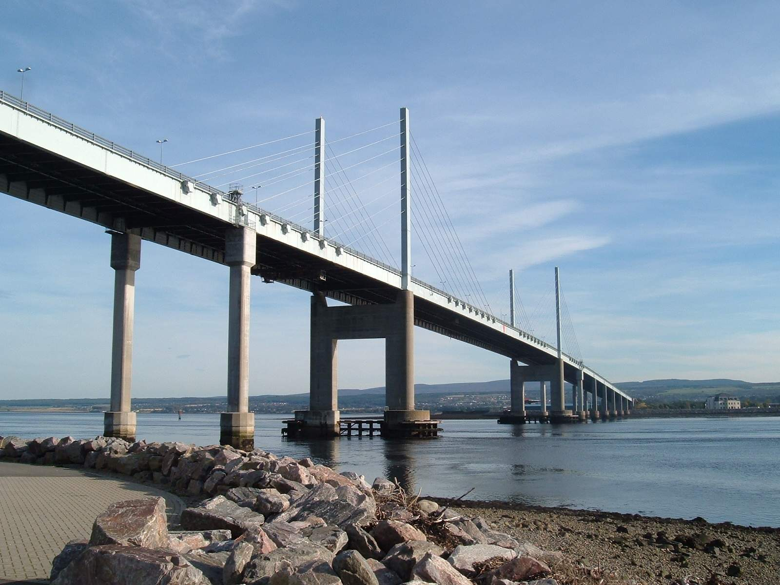 Taken from North Kessock Lifeboat Station. The Bridge built in the 1980's replaced a car ferry and carries the A9 trunk road from Inverness northwards. I used to love crossing the ferry especially when I was a wee laddie - but this bridge is a wonderful sight and a joy to drive over (as I do, often) The views from it are magnificent but I shall have to WALK across it some day with camera, as there's no stopping on the bridge!